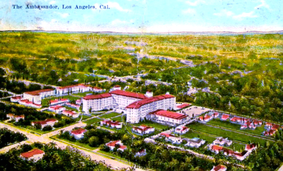 Image of the Ambassador Hotel from a postcard.